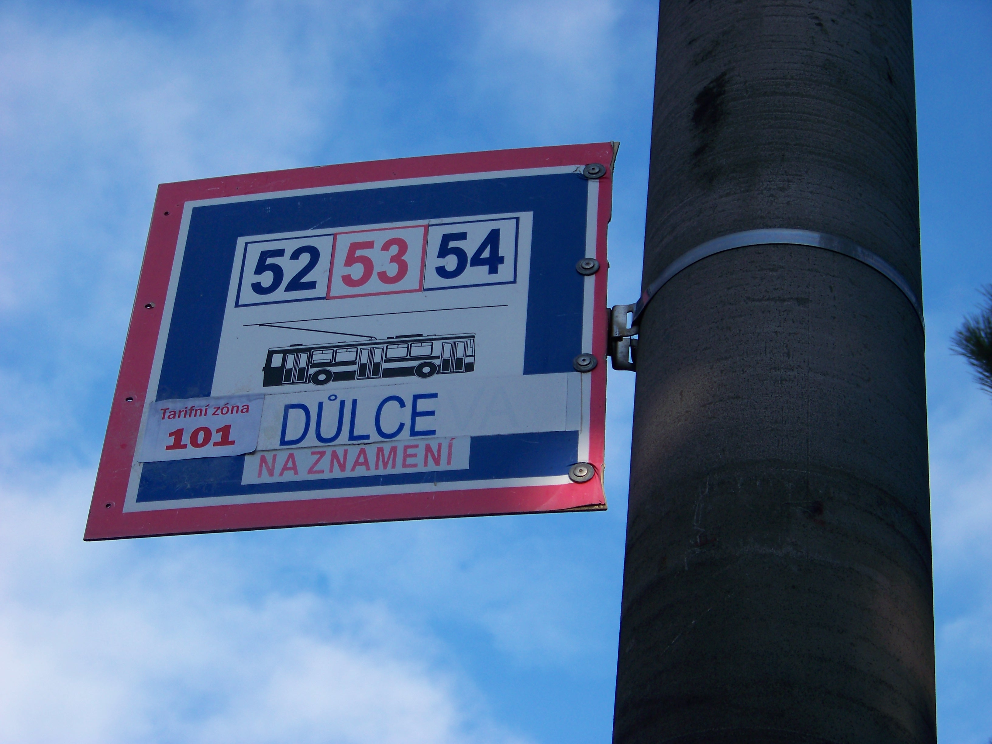 Ústí nad Labem, the Czech Republic. Důlce street, a trolleybus stop Důlce. - OpenStreetMap(Info)